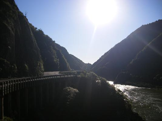 Manawatu Gorge in New Zealand.